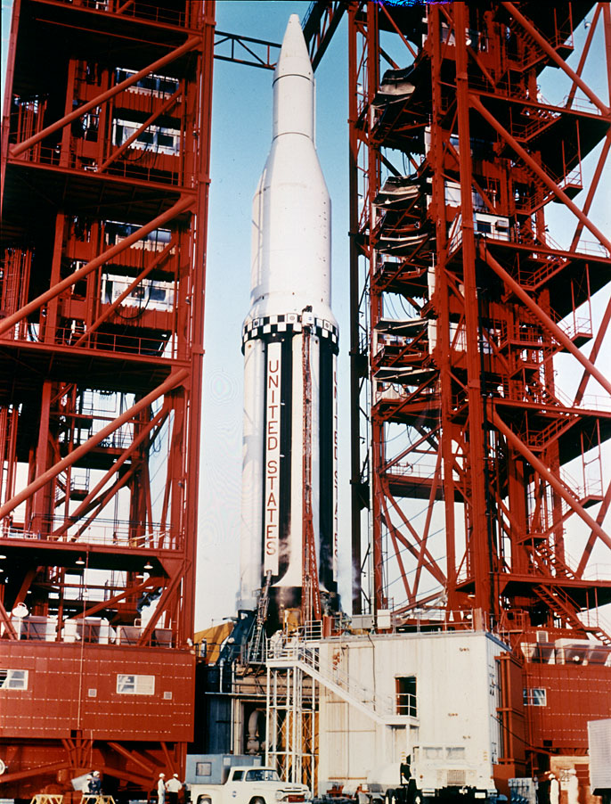 view of Saturn SA-2 at Complex 34